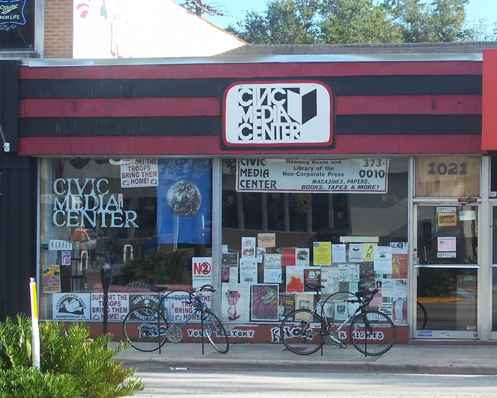 Gainesville, Florida: Civic Media Center, on University Avenue.